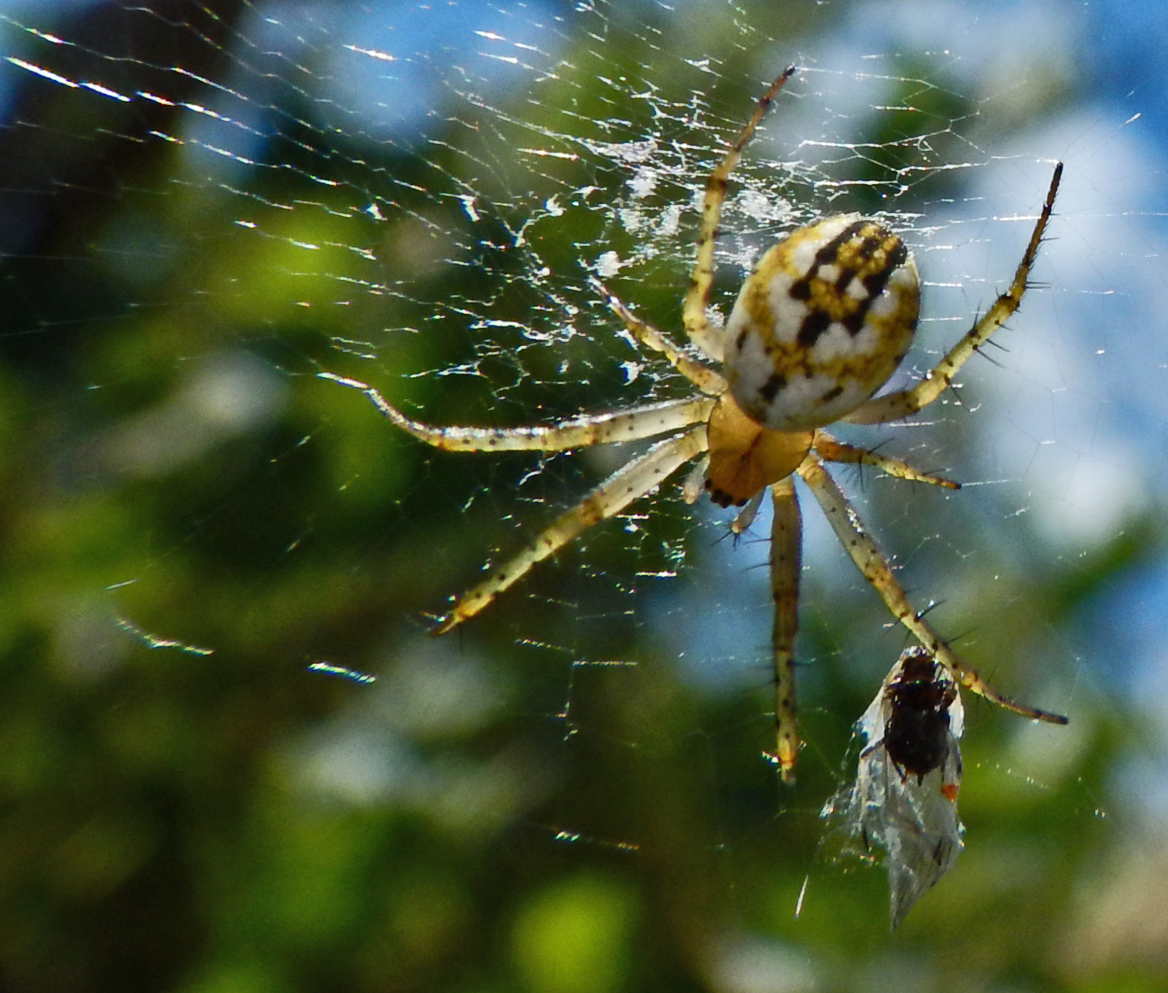 Mangora acalypha (Walckenaer, 1802), in Lille (north of France), photographiée le 13 juin 2015